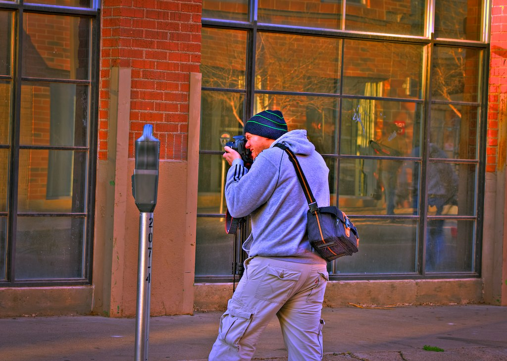 Phoenix Photowalk II. Heres a shot of Jon whose work you can check out over at 3 bracketed images via Photomatix, post in CS5 and Nik Color Efx